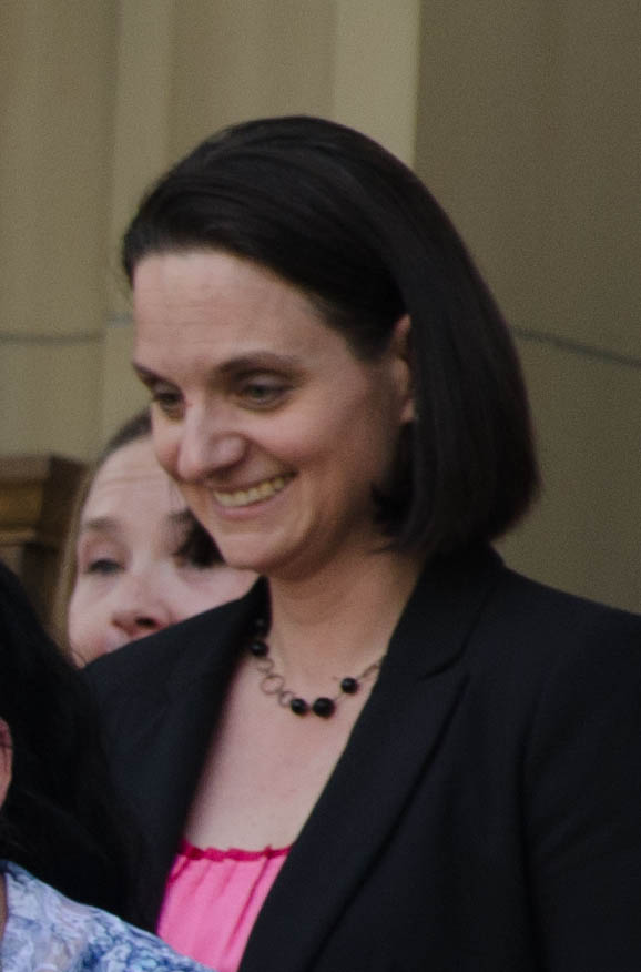 Danielle Larivee at the 2015 Alberta Premier/Cabinet swearing-in ceremony, by Connor Mah.